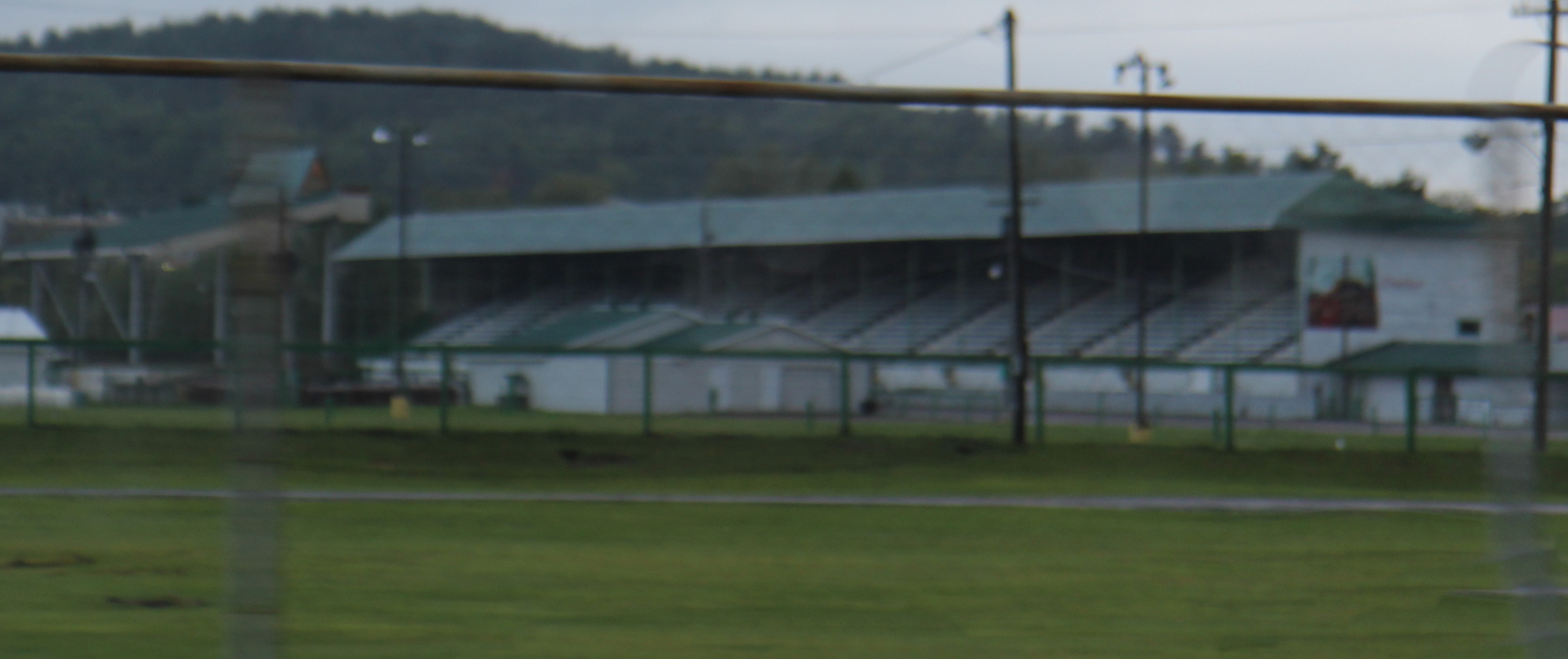 The Franklin County Fairgrounds in Malone, New York.